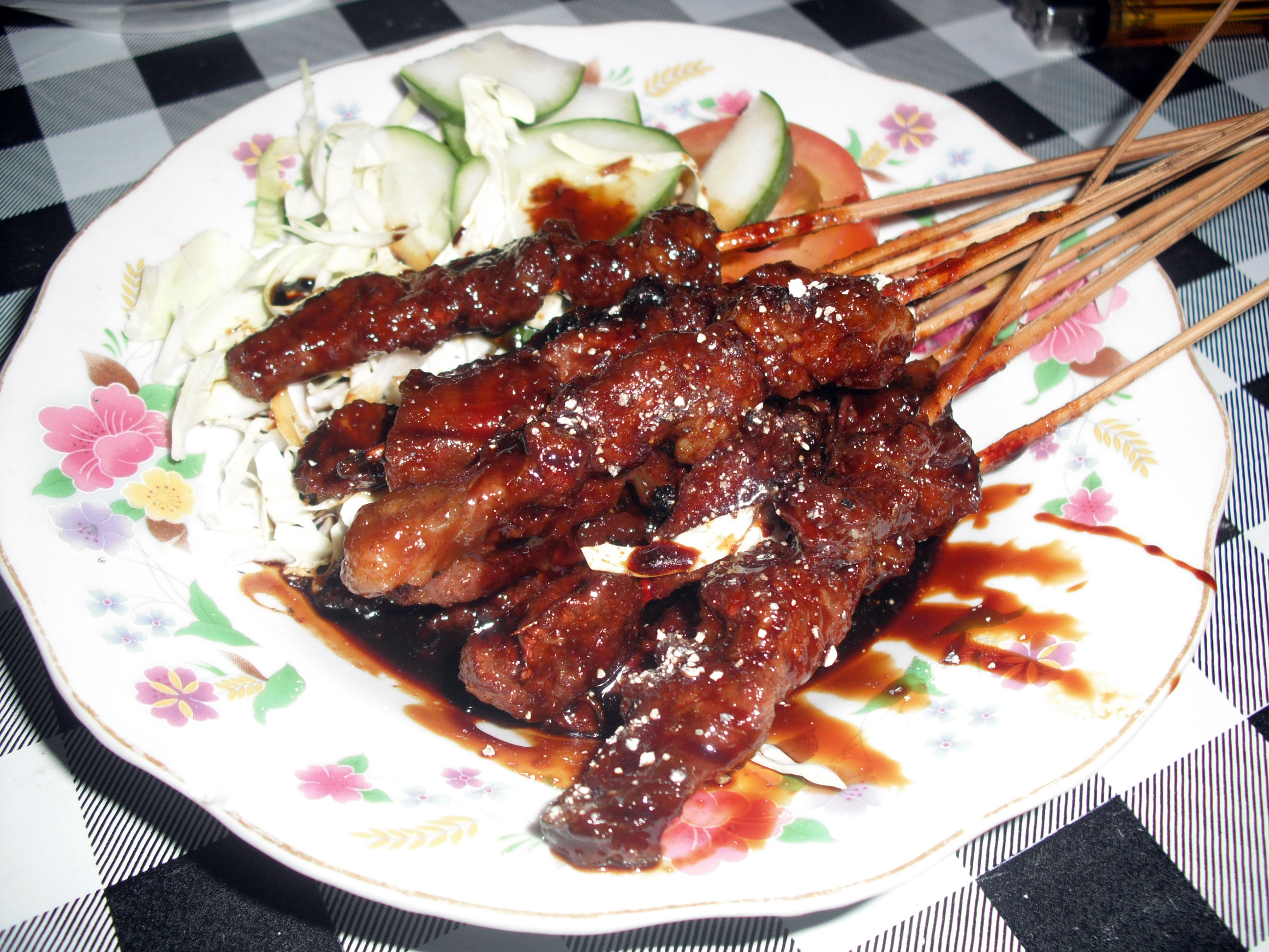 Horse Satay in Yogyakarta